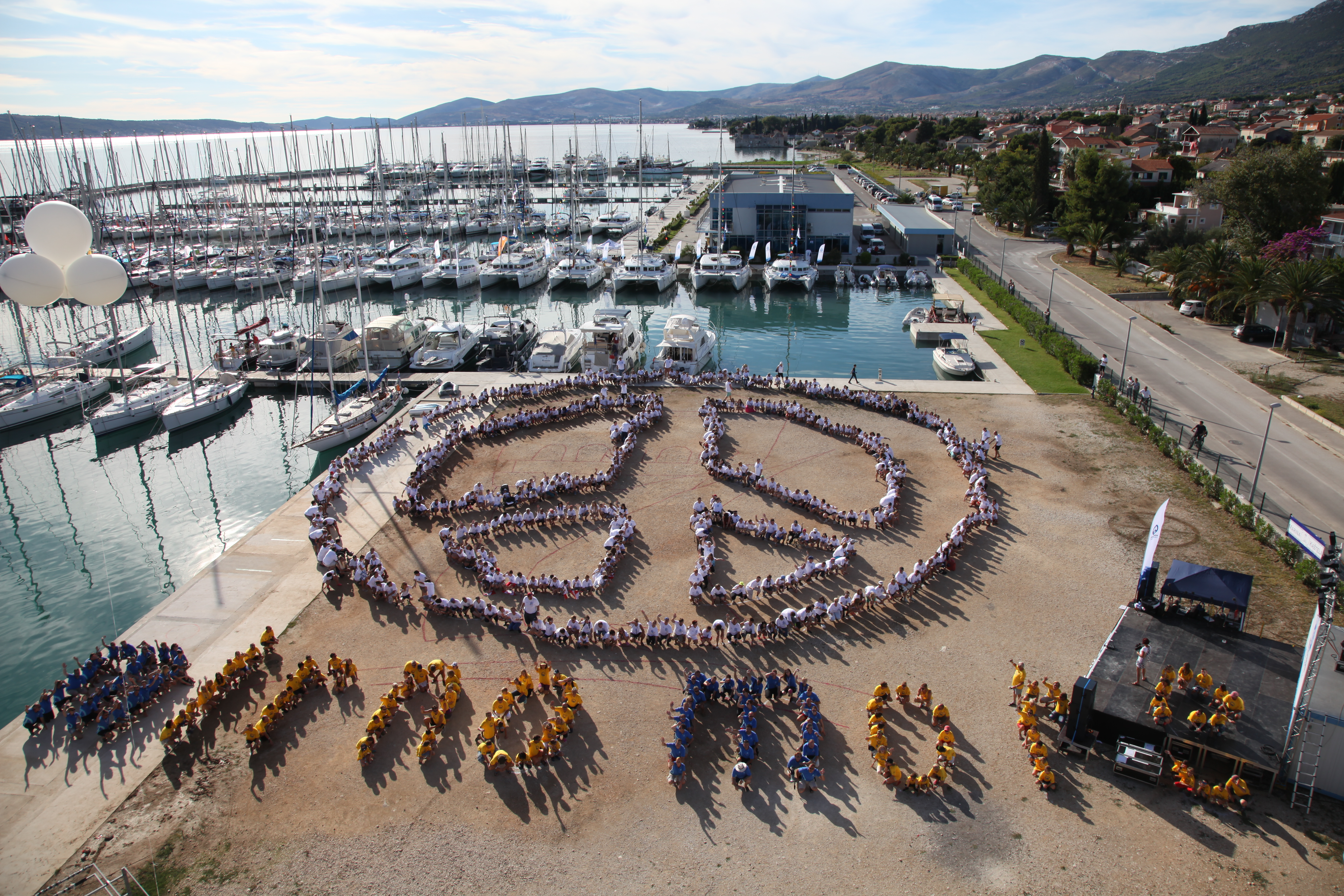 Peace sign built with people